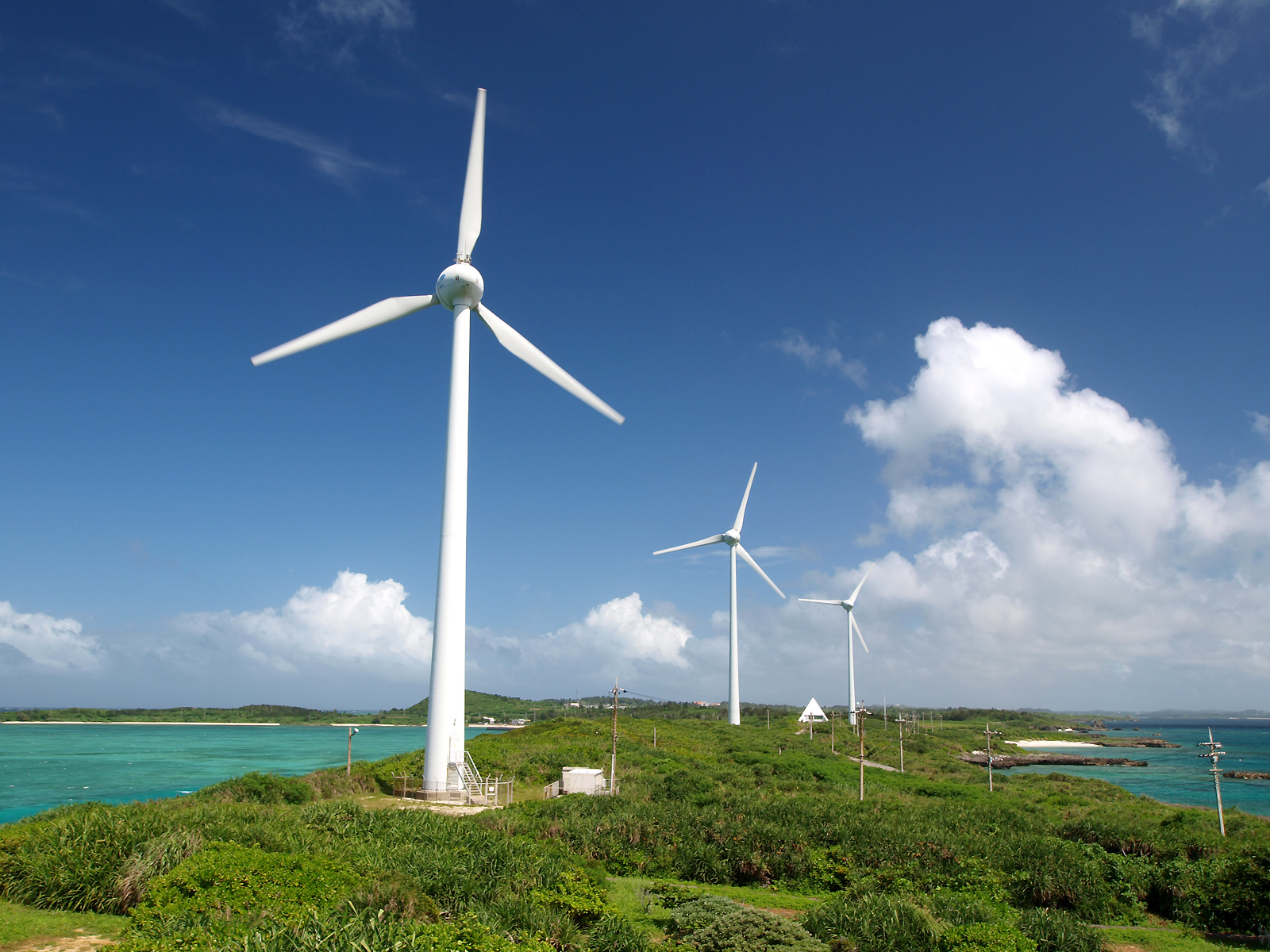 Wind Turbines at Nishihennnazaki, Miyakojima, Okinawa, Japan